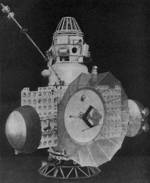 (1965) Zond 2 was an automatic interplanetary station launched from a Tyazheliy Sputnik (64-078A) in Earth parking orbit towards Mars to test space-borne systems and to carry out scientific investigations. The probe carried a descent craft and the same instruments as the Mars 1 flyby spacecraft: a magnetometer probe, television photographic equipment, a spectroreflectometer , radiation sensors (gas-discharge and scintillation counters), a spectrograph to study ozone absorption bands, and a micrometeoroid instrument. The spacecraft had six experimental low-thrust electrojet plasma ion engines that served as actuators of the attitude control system and could be used instead of the gas engines to maintain orientation. Power was provided by two solar panels. Zond 2 took a long curving trajectory towards Mars to minimize the relative velocity. The electronic ion engines were successfully tested shortly after launch under real space environment conditions over the period December 8-18, 1964. One of the two solar panels failed so only half the anticipated power was available to the spacecraft. After a mid-course maneuver, communications with the spacecraft were lost in early May, 1965. The spacecraft flew by Mars on 6 August 1965 at a distance of 1500 km and a relative speed of 5.62 km/s.